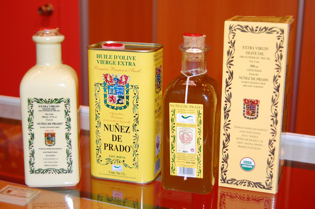 Extra Virgin DOP Baena Olive Oil, Spain.